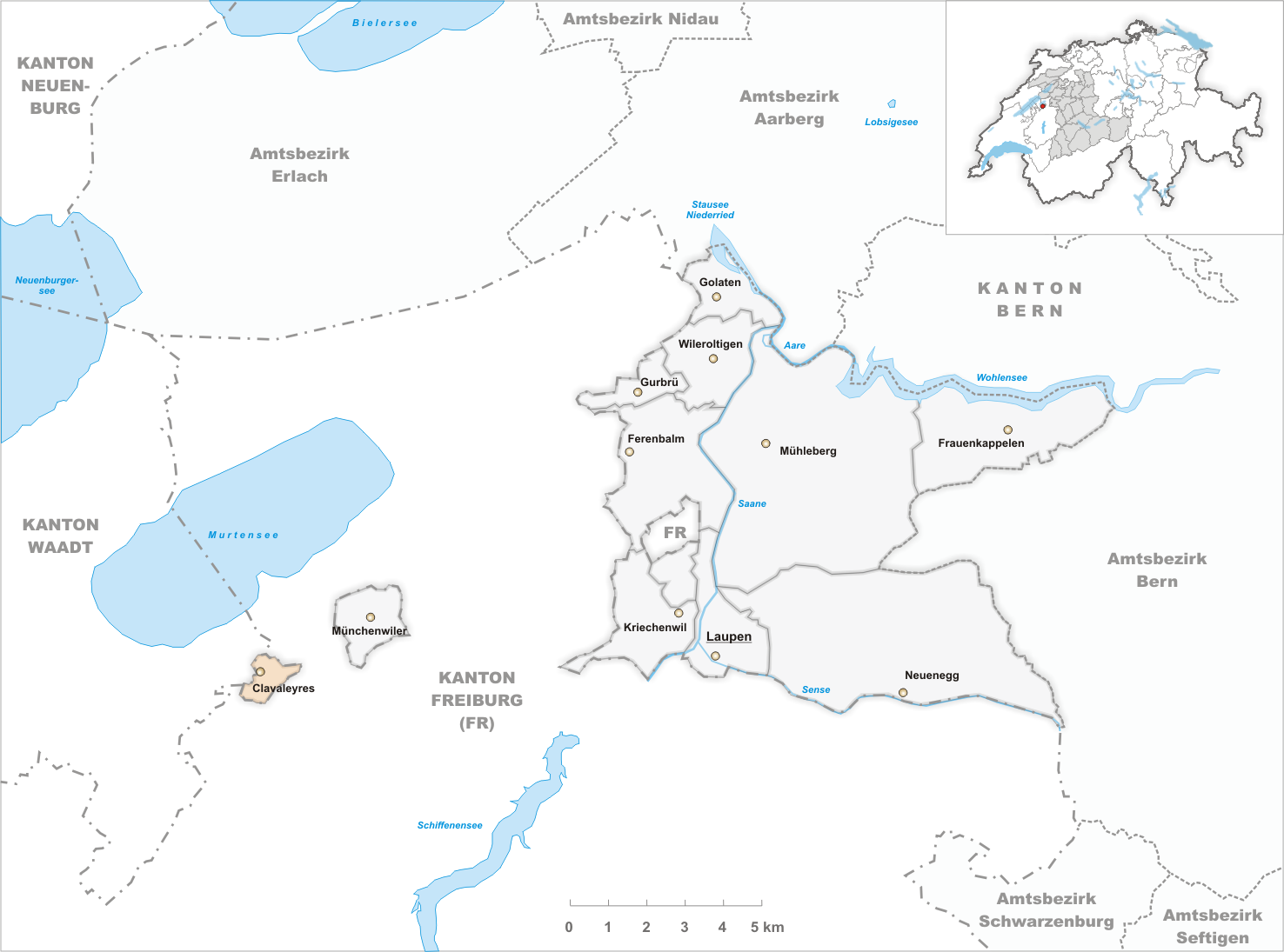 Municipality Clavaleyres